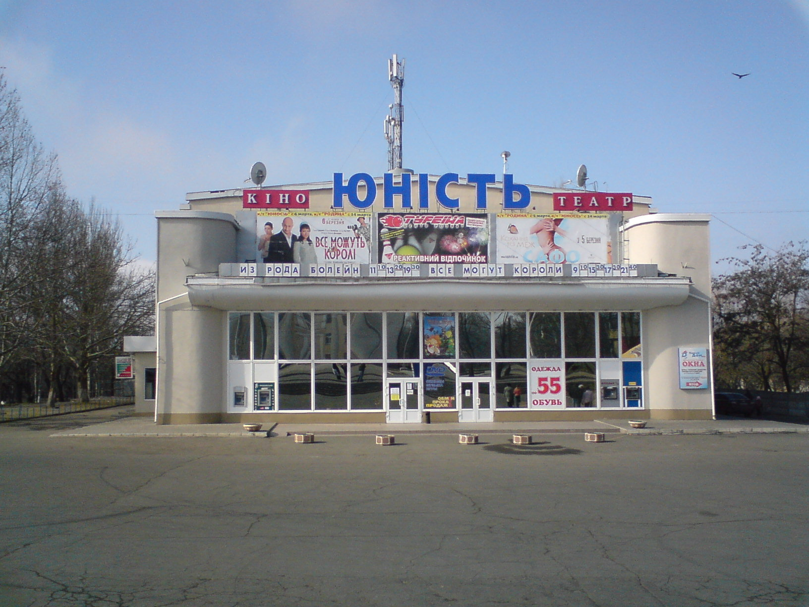 Cinema "Unost" in Mykolaiv.